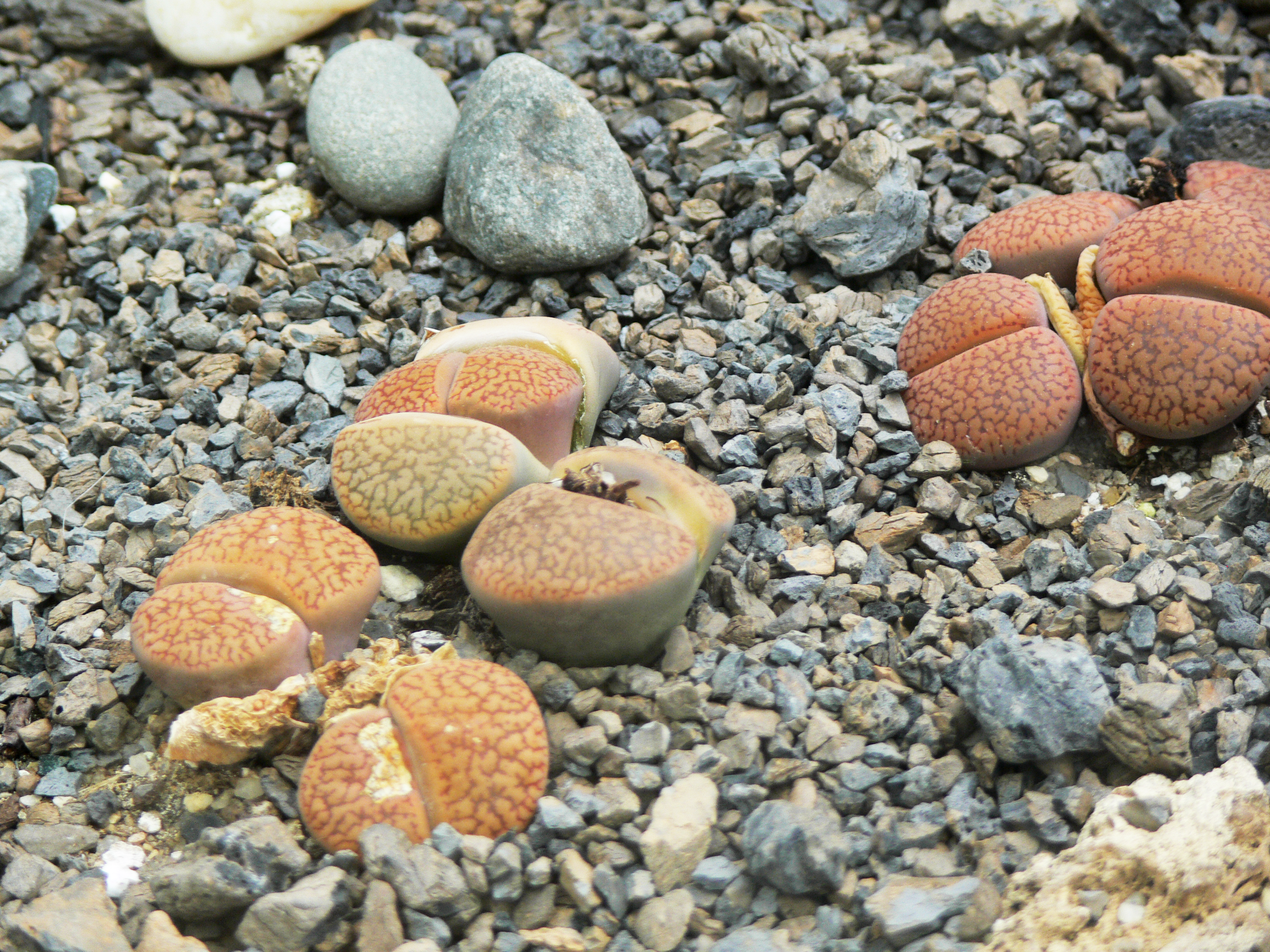 Taken at the New York Botanical Garden.